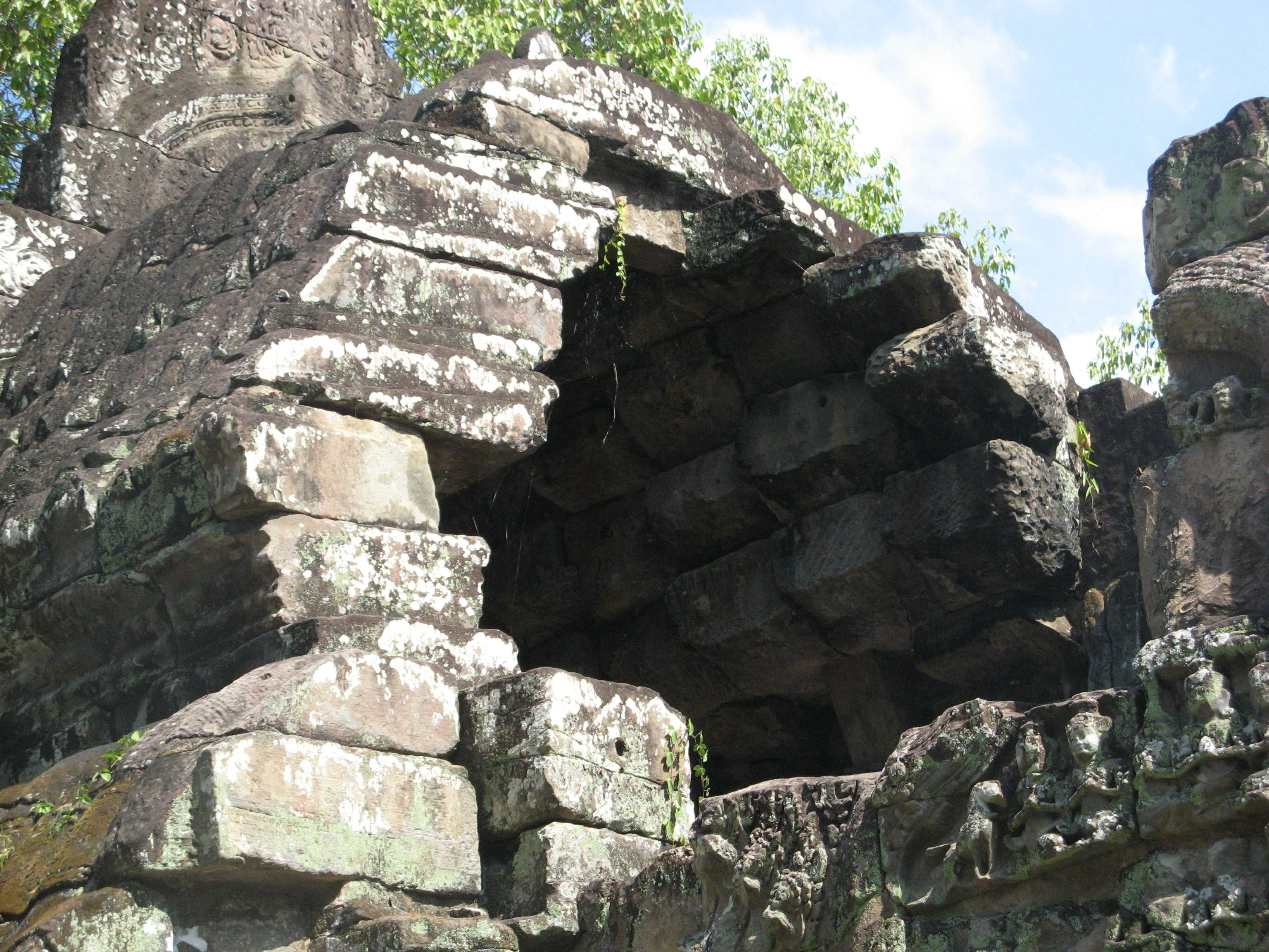 false vault in Angkor, Cambodia